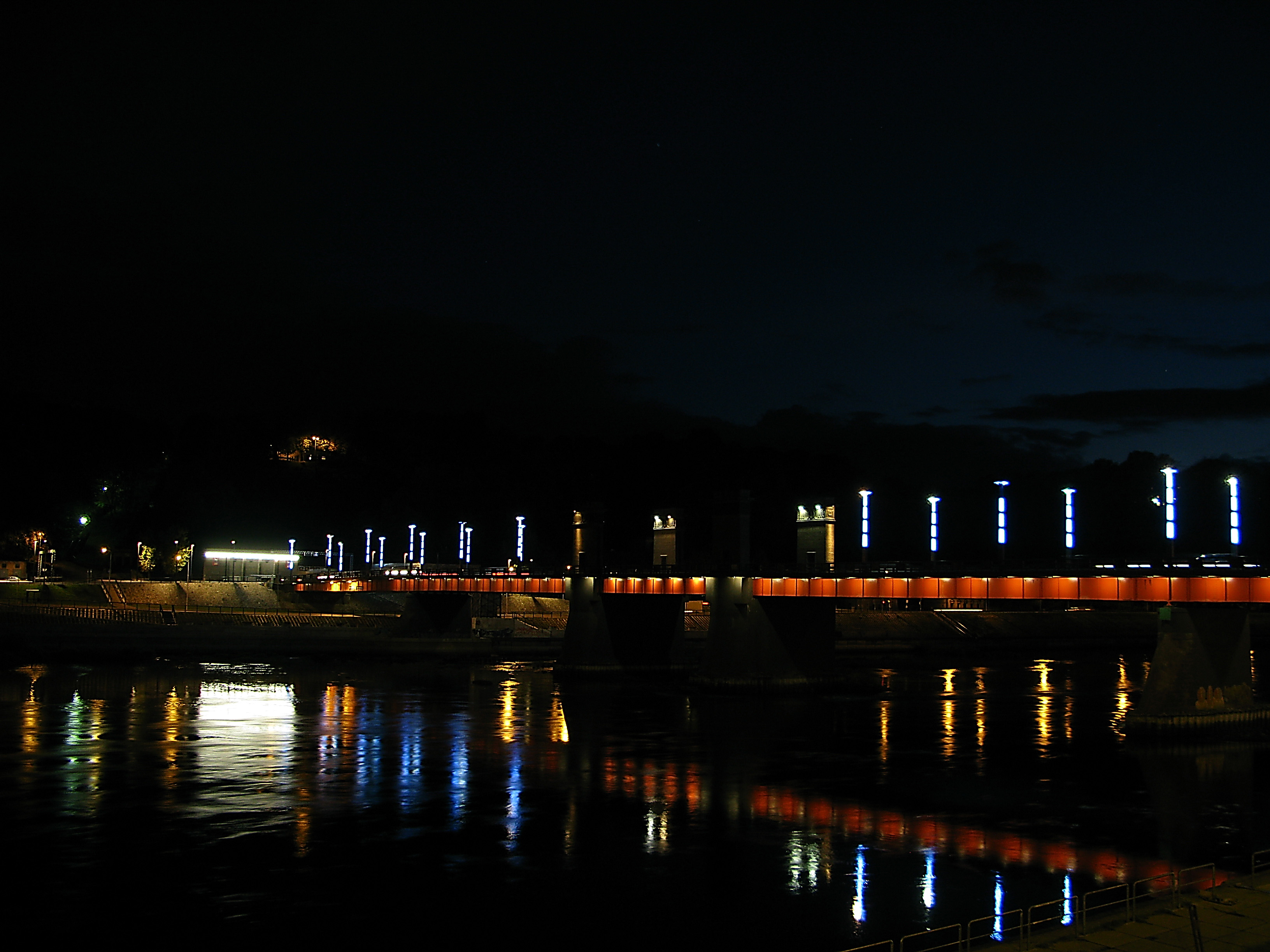 Aleksotas bridge at night, Kaunas.